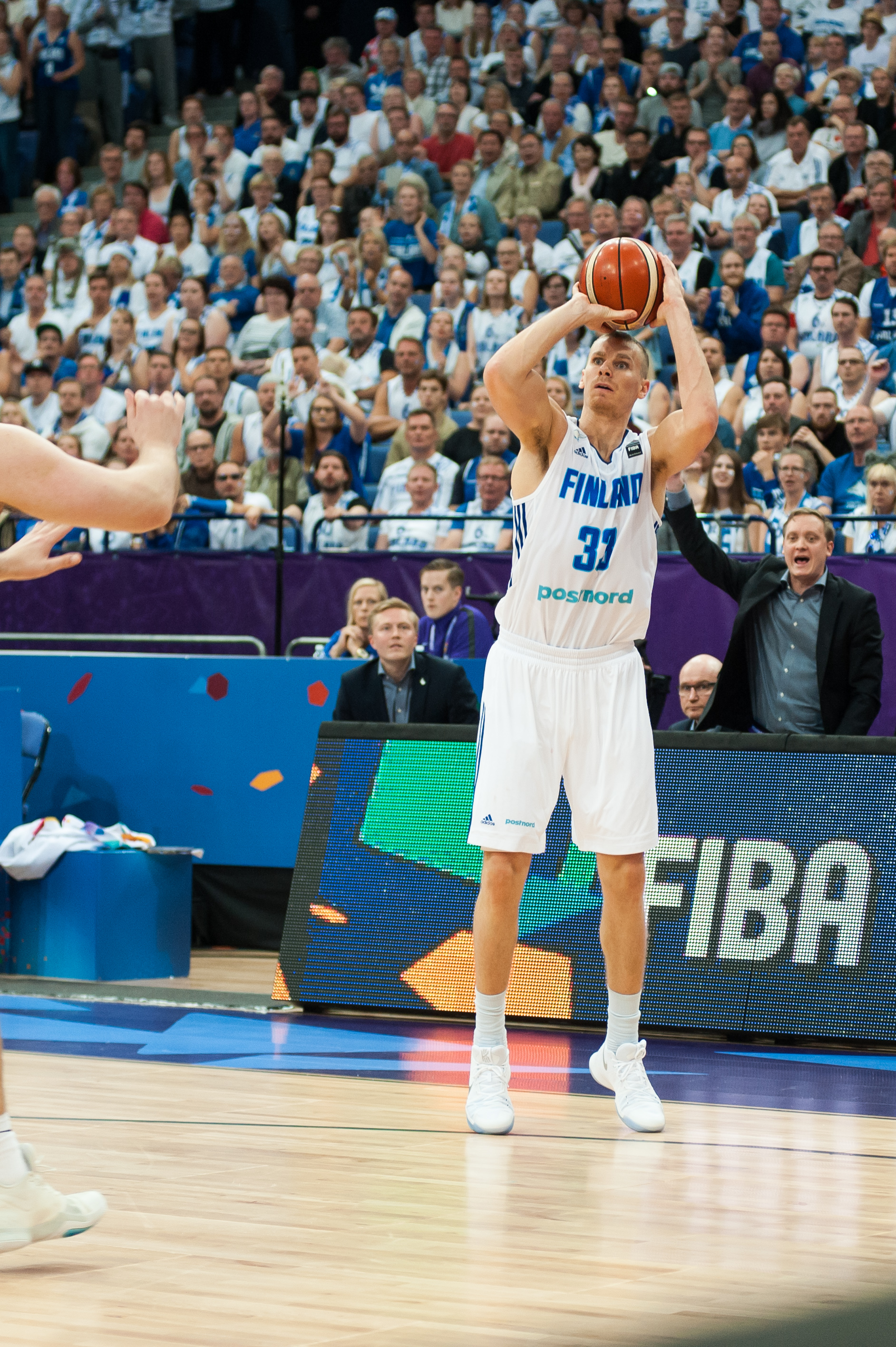 EuroBasket 2017 Group A game between Finland and Poland at Hartwall Arena in Helsinki, Finland.